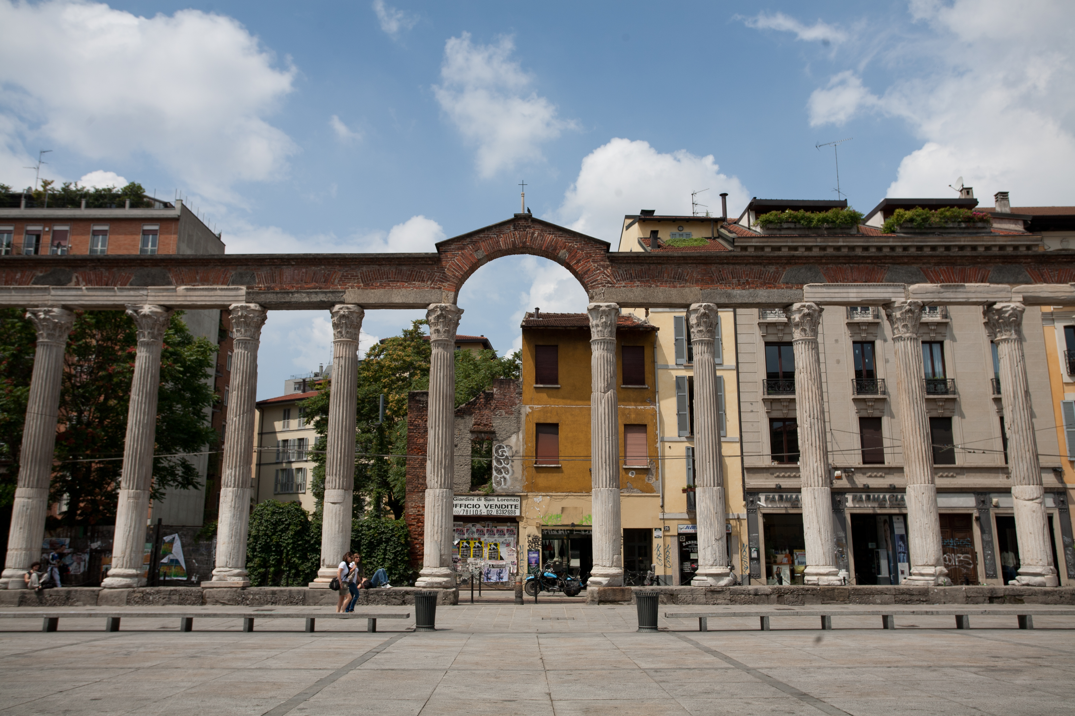 Roman columns near the Basilica of San Lorenzo, Milan, Italy.